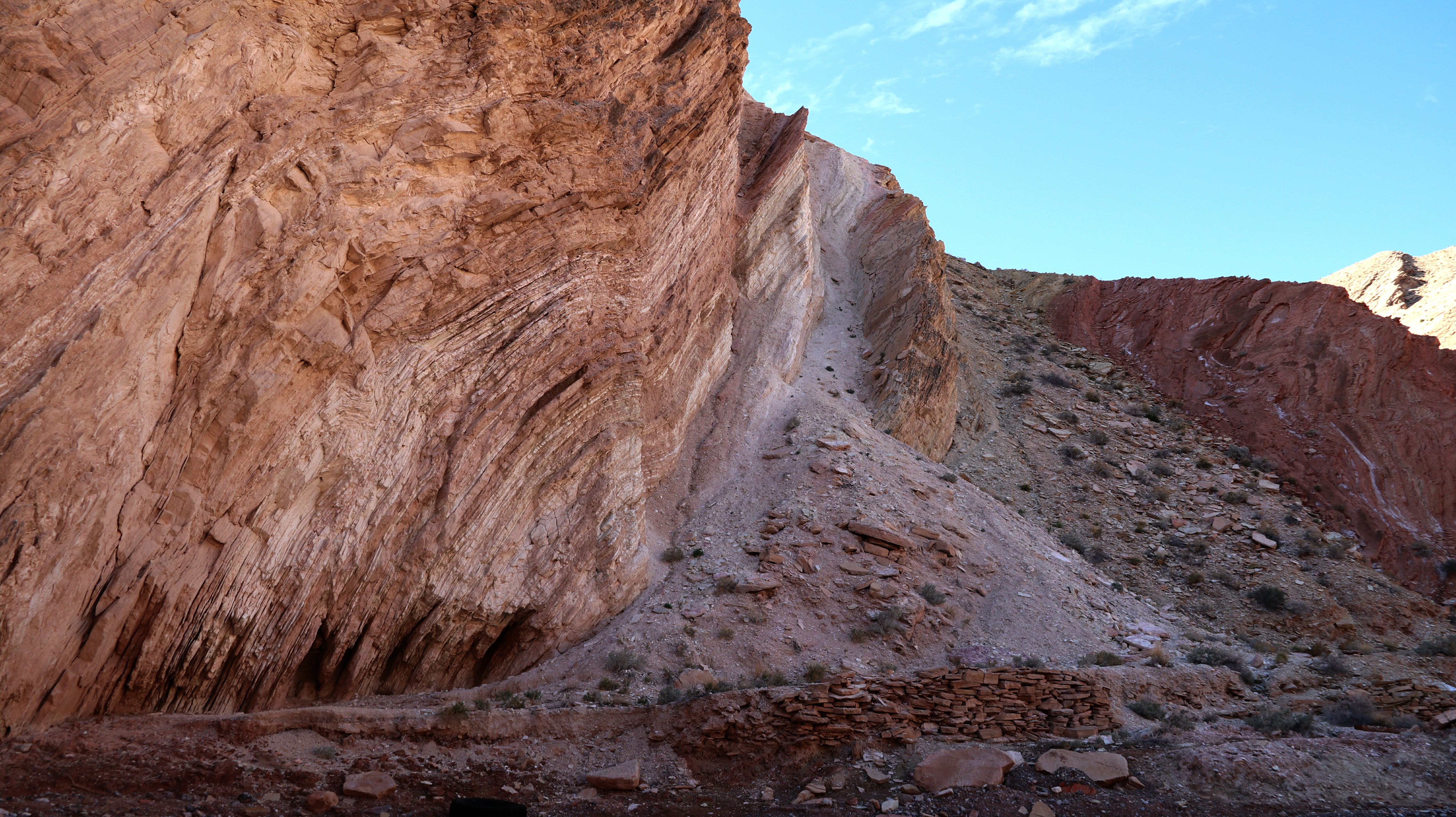 Sedimentary layers within the horse spring formation Lovell Wash member 20 miles east of Las Vegas north of the highway about 1 mile. A series of changing lakes that came and went over a long period left various layers that had algae on the bottom often (stromatolites) that then fossilized.